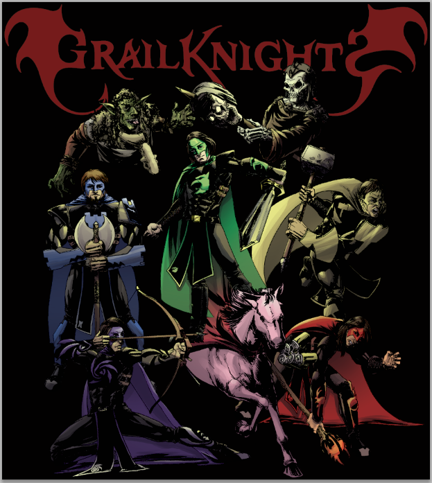 Grailknights, Dr. Skull, Morph and the lovely beer steed "Beer Beauty"